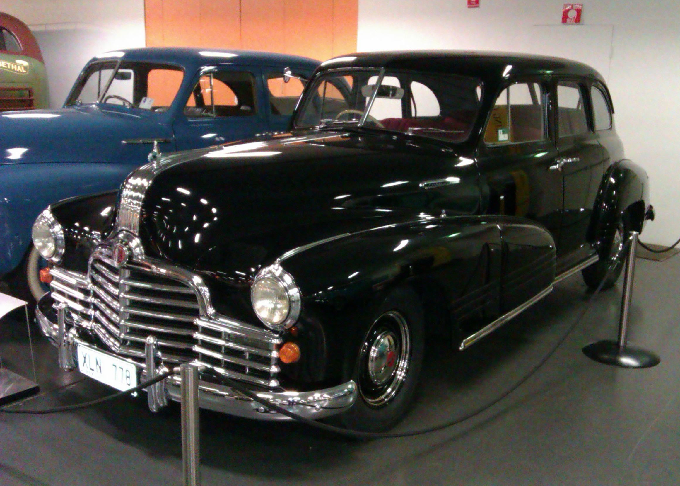 1946 Pontiac Torpedo 4-Door Sedan This right-hand-drive example was photographed at the National Motor Museum at Birdwood in South Australia.